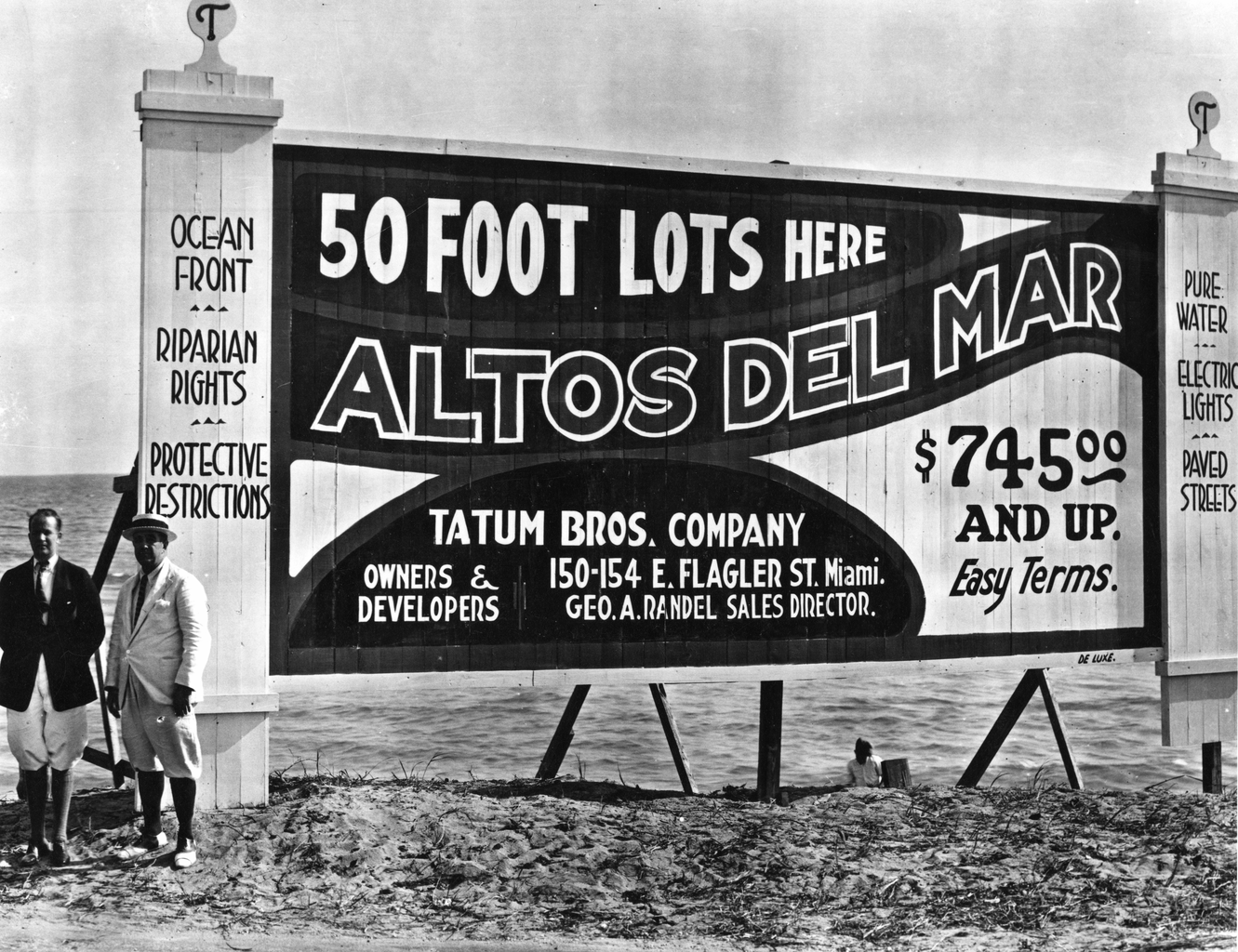 The draining of swamp lands, continued penetration of rail lines, and expansion of highways all paved the way for the Great Florida Land Boom of the mid-1920s. This image, taken a few years before the speculative rush reached its peak, shows the promotion of Florida as both a paradise for residents and a cash engine for potential investors. Cities such as Miami and St. Petersburg grew tenfold in population in less than two decades as the amount of money being invested in home construction and hotel development began to soar into the tens of millions of dollars. In 1924, Florida amended its constitution to prohibit taxes on income and inheritance, thereby providing further incentives for wealthy investors and entrepreneurs to look toward the state. Inflated land values and rampant issuing of ill-advised loans led to a speculative bubble that burst in 1925. The collapse of the Florida Land Boom was one of a series of portentous events that heralded the onset of the Great Depression in 1929. Advertising; Billboards; Economic development; Promotion; Real estate development